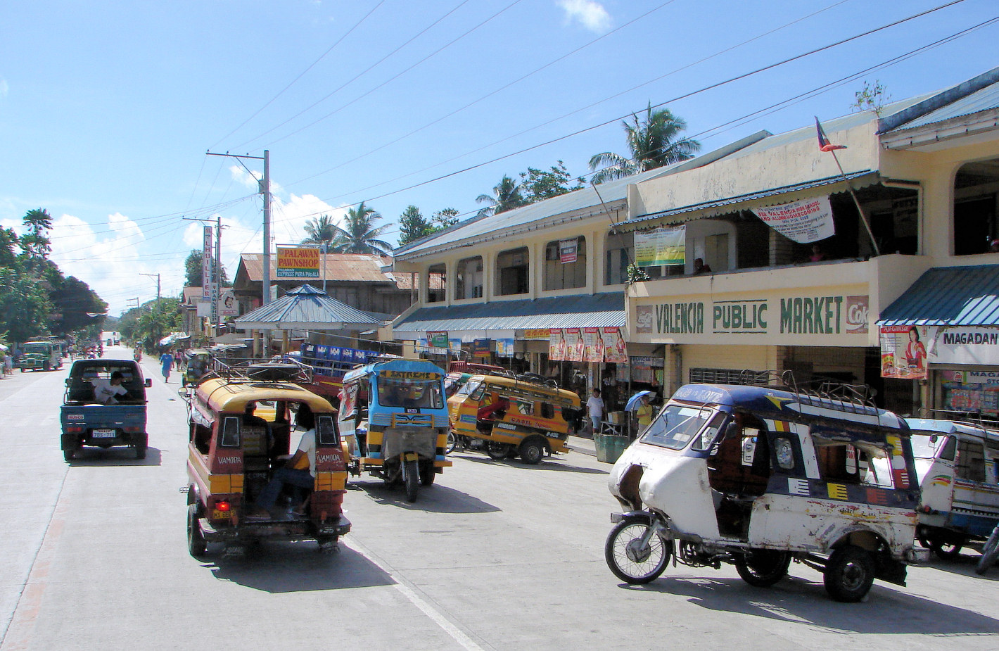 Valencia Public Market, Bohol, the Philippines